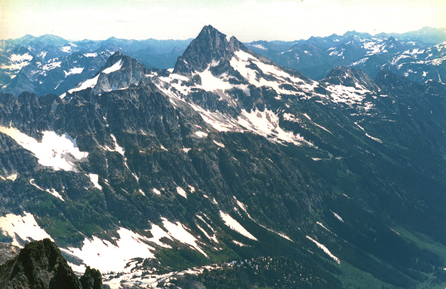 Mount Goode seen from Mount Buckner summit. North Cascades National Park.